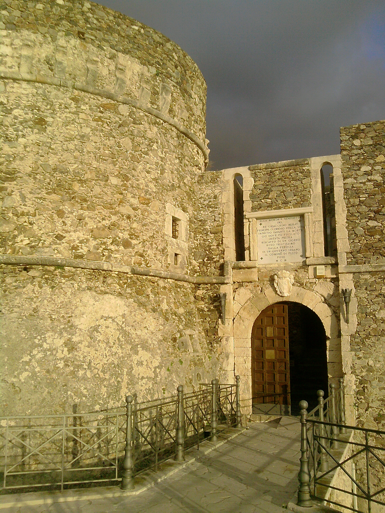 Il Castello Aragonese di Pizzo Calabro, luogo di prigionia e fucilazione di Gioacchino Murat.